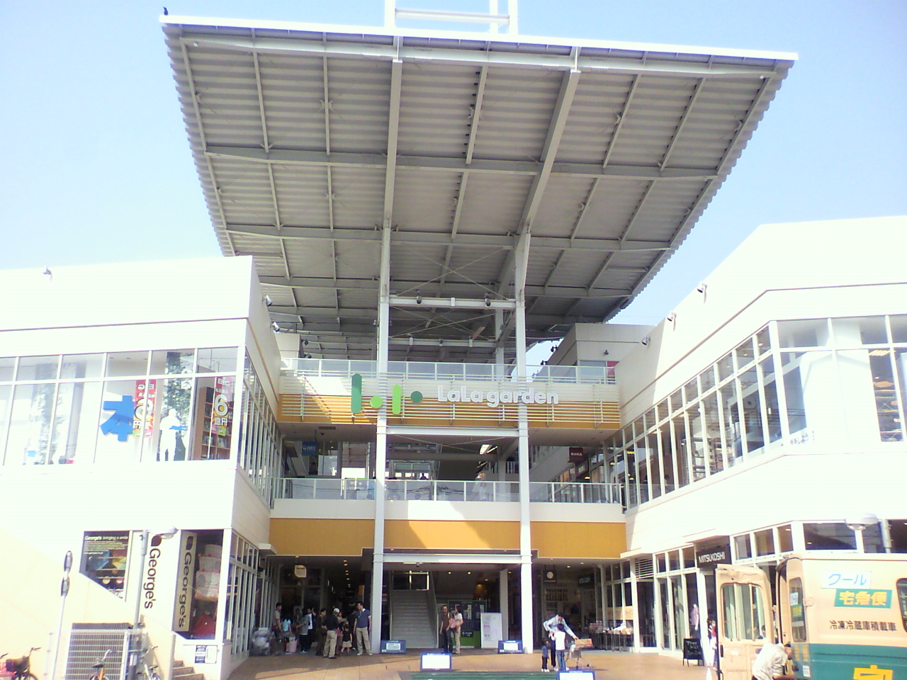 LaLa Garden Kasukabe in Kasukabe City, Saitama Prefecture, Japan